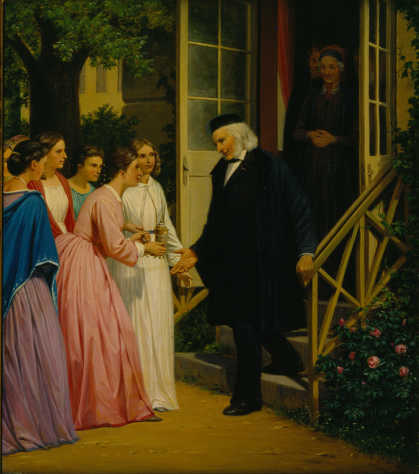 The poet B. S. Ingemann receiving a golden horn from the women of Denmark on his 70 years birthsday}. Title of painting: "Bernhard Severin Ingemann modtager et Guldhorn af unge Kvinder paa sin 70aarige Fødselsdag 28 Maj 1859"